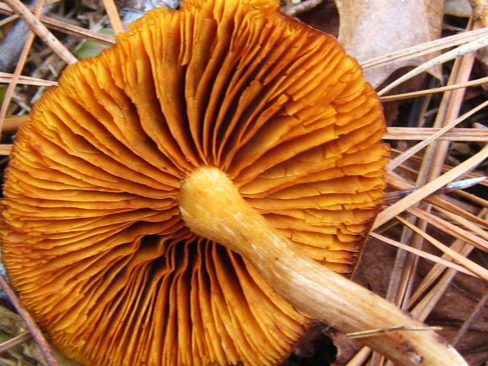 Gymnopilus sapineus